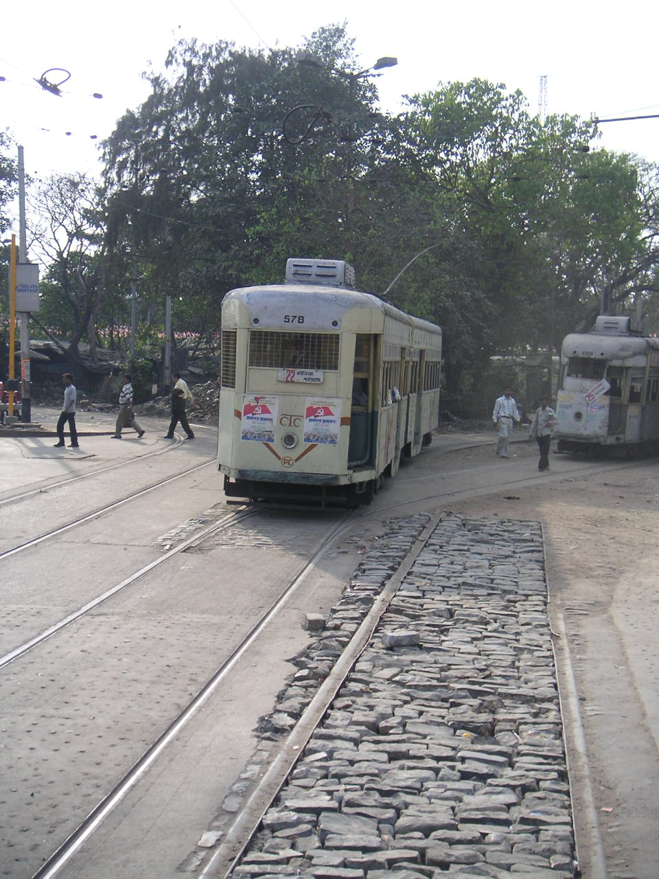 Tram in Kolkata, India.